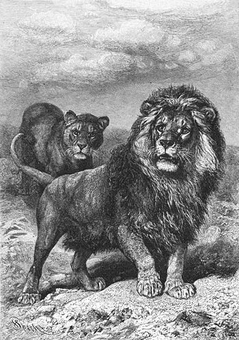 Kaapsche Leeuw en Leeuwin (Felis leo capensis). Currently: Panthera leo melanochaita